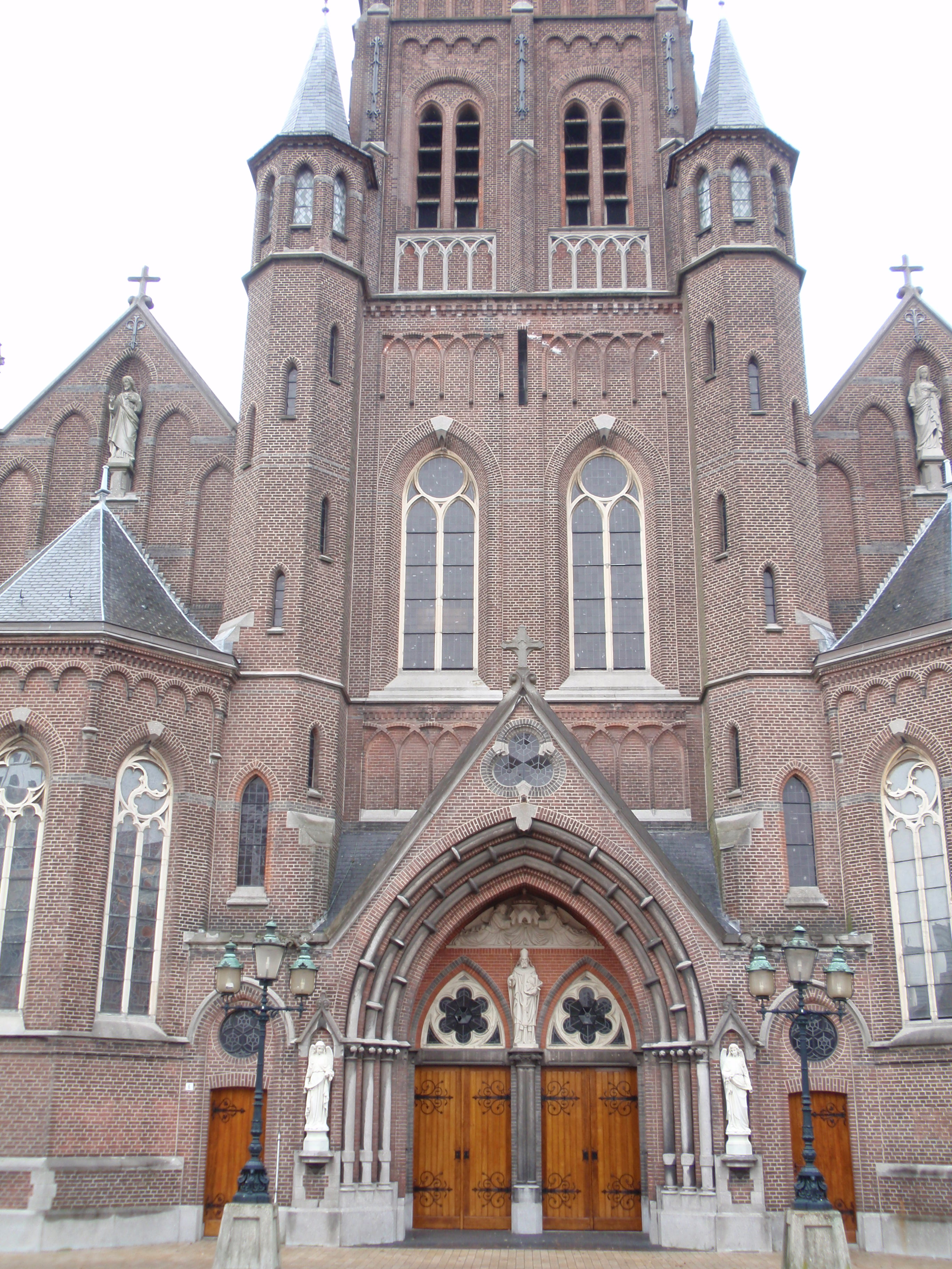 Heikese Church - Tilburg